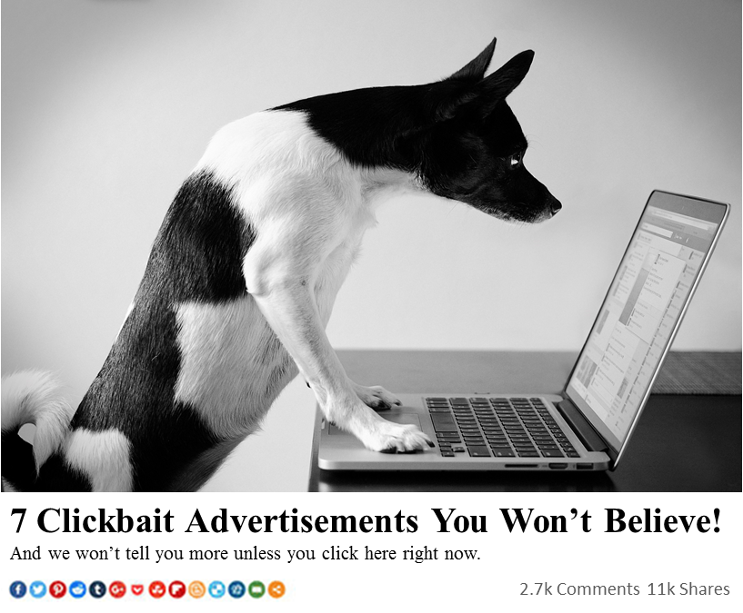 Fictional example of an online ad employing two common clickbait tactics according to Wired Magazine, including the use of numbered lists, and utilizing an information-gap to encourage reader curiosity.